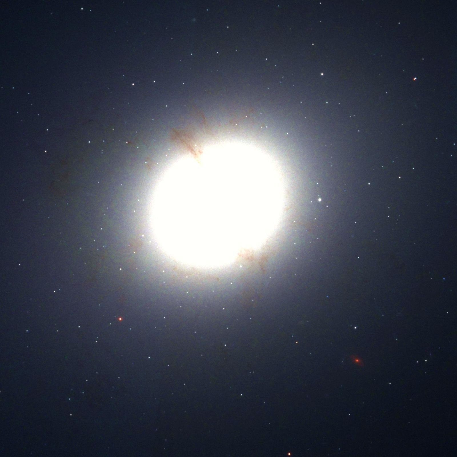 NGC 4589 galaxy by Hubble space telescope